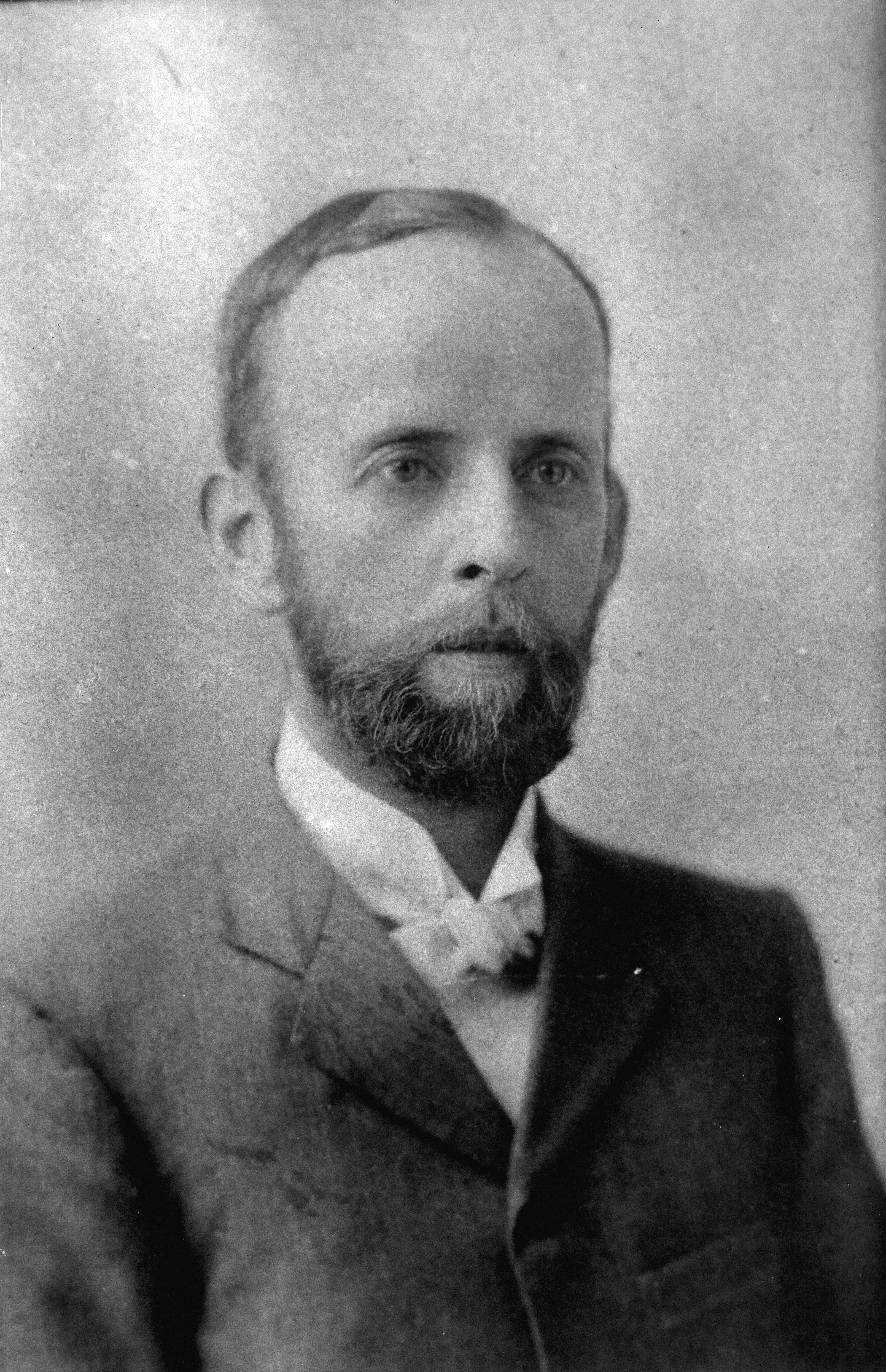 Doctor Alfred Jefferis Turner, 1861-1947, paediatrician and entomologist